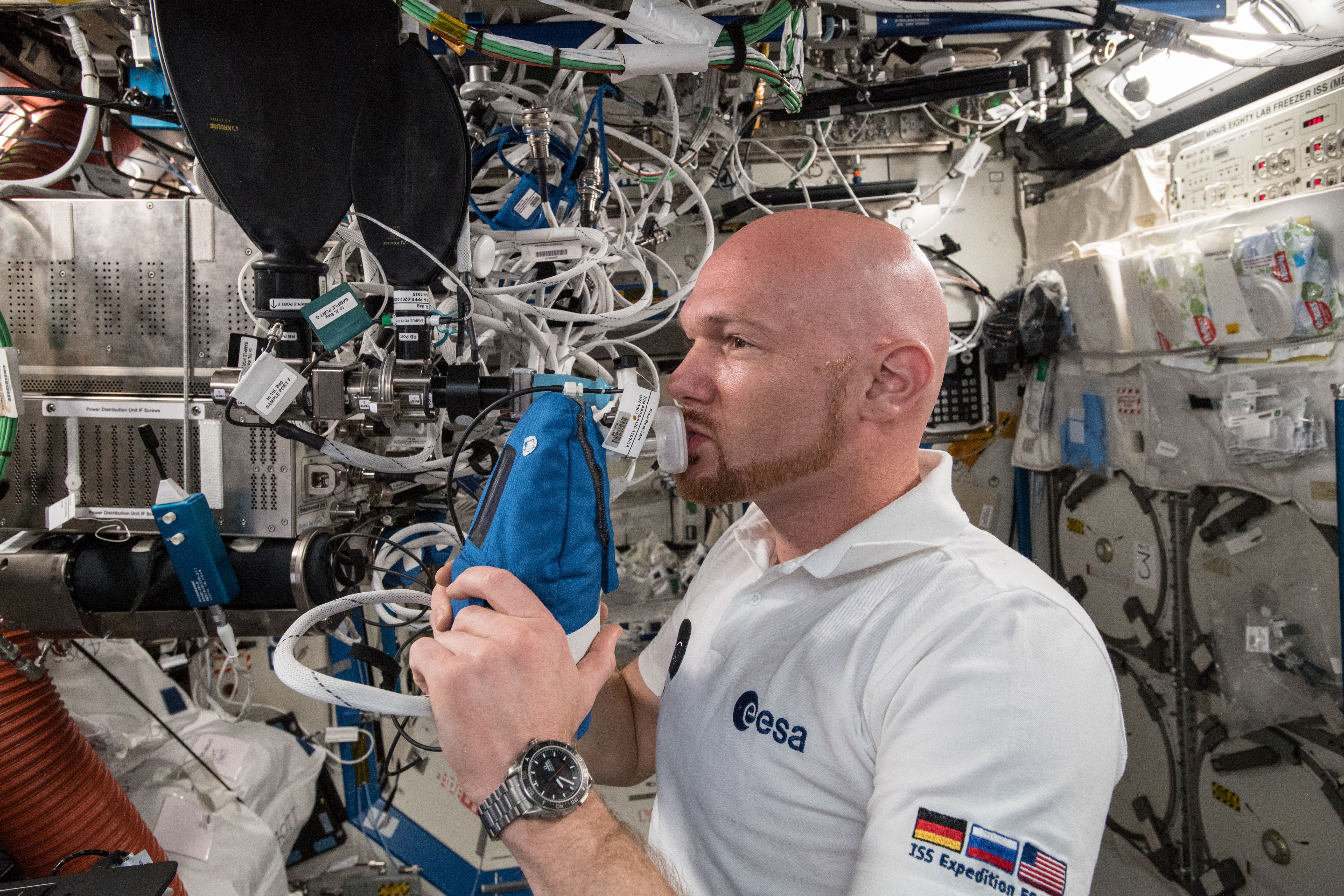 Astronaut Alexander Gerst of ESA (European Space Agency) exhales into an ultra-sensitive gas analyzer for the Airway Monitoring experiment. The experiment studies the occurrence and indicators of airway inflammation in crew members to help flight surgeons plan safer, long-term missions to the Moon, Mars and beyond. Results may also help doctors treat patients on Earth with asthma or other airway inflammatory diseases.